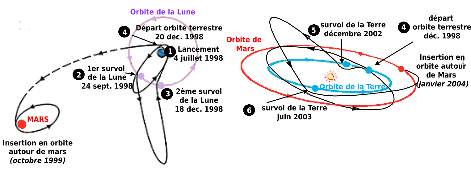 Trajectory of the japanese martian spacecraft Nozomi (french labels)